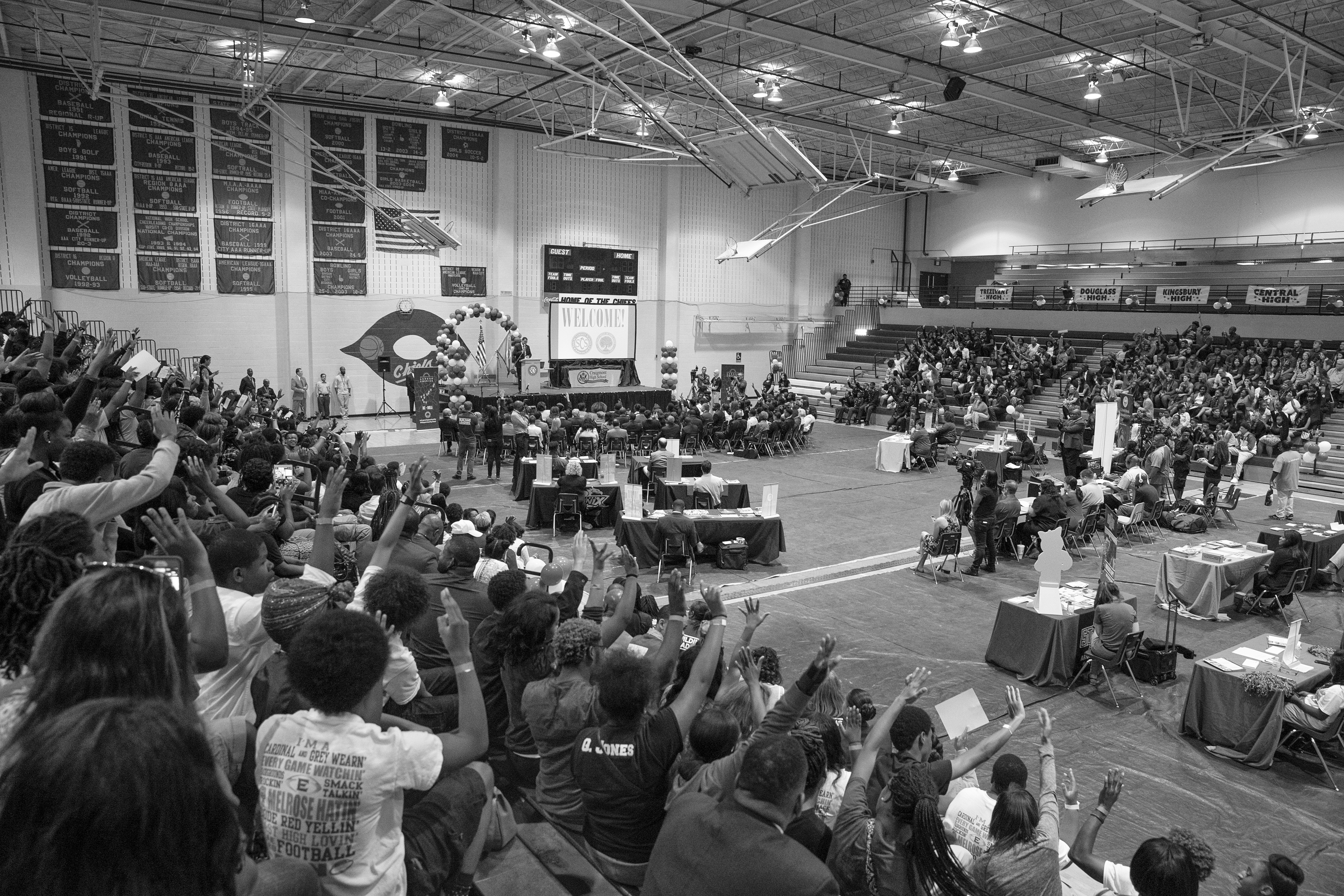 U.S. Secretary of Education John King Jr. speaking at Craigmont High School in Memphis, Tennessee.